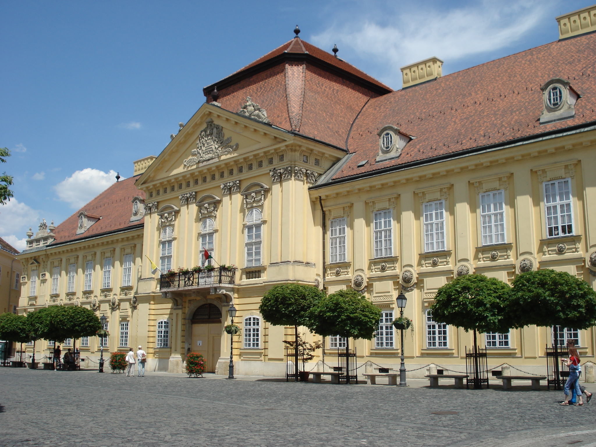 Bishops Palace in Szekesfehervar. Taken by David Sallay, Jun 2007.